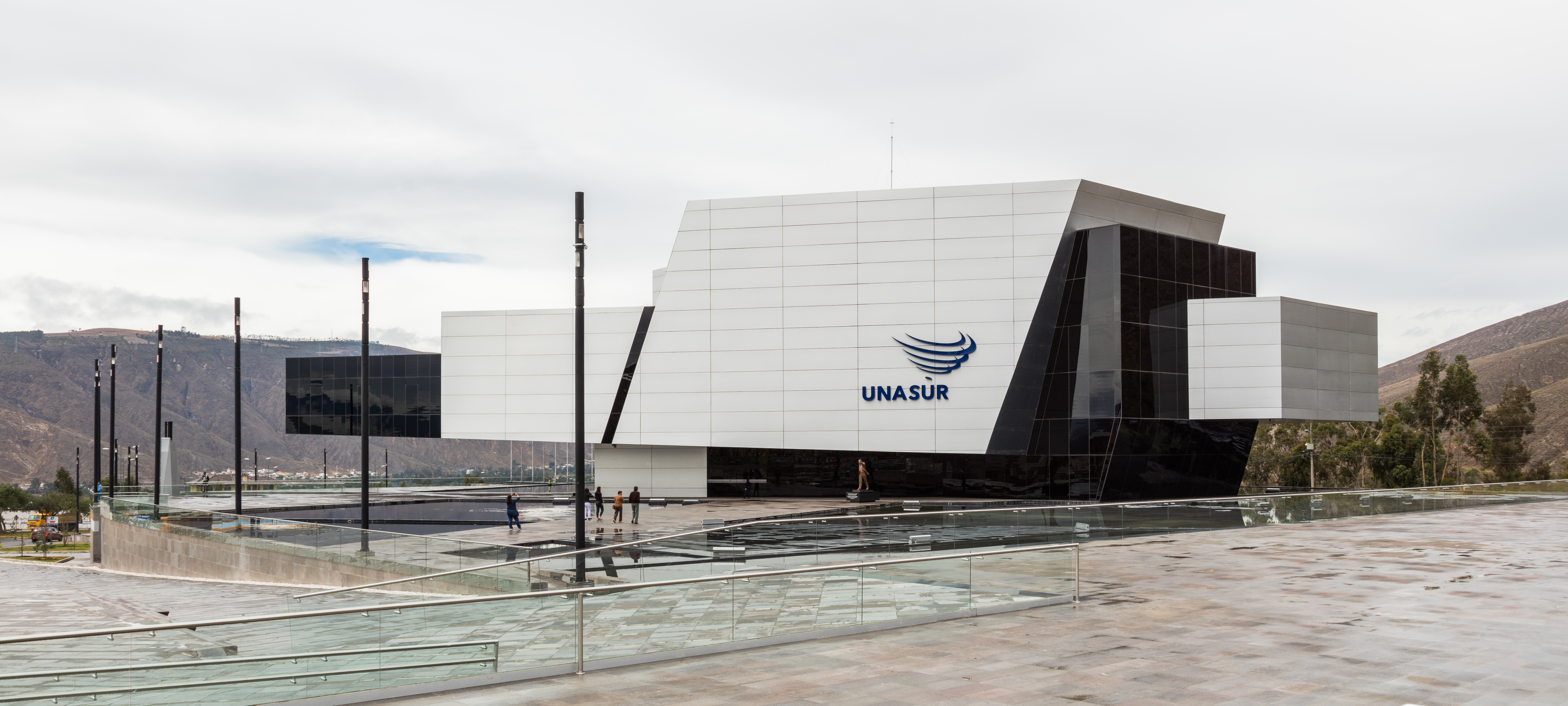 Headquarters of Unasur, Quito, Ecuador